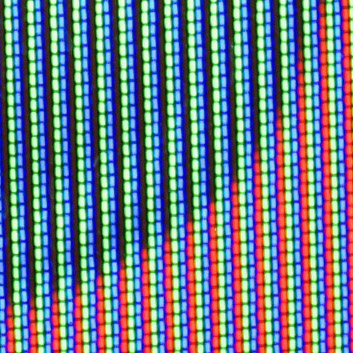 An Aperture Grille CRT display taken on a Canon EOS 40D, cropped using Adobe Photoshop CS3 Extended.